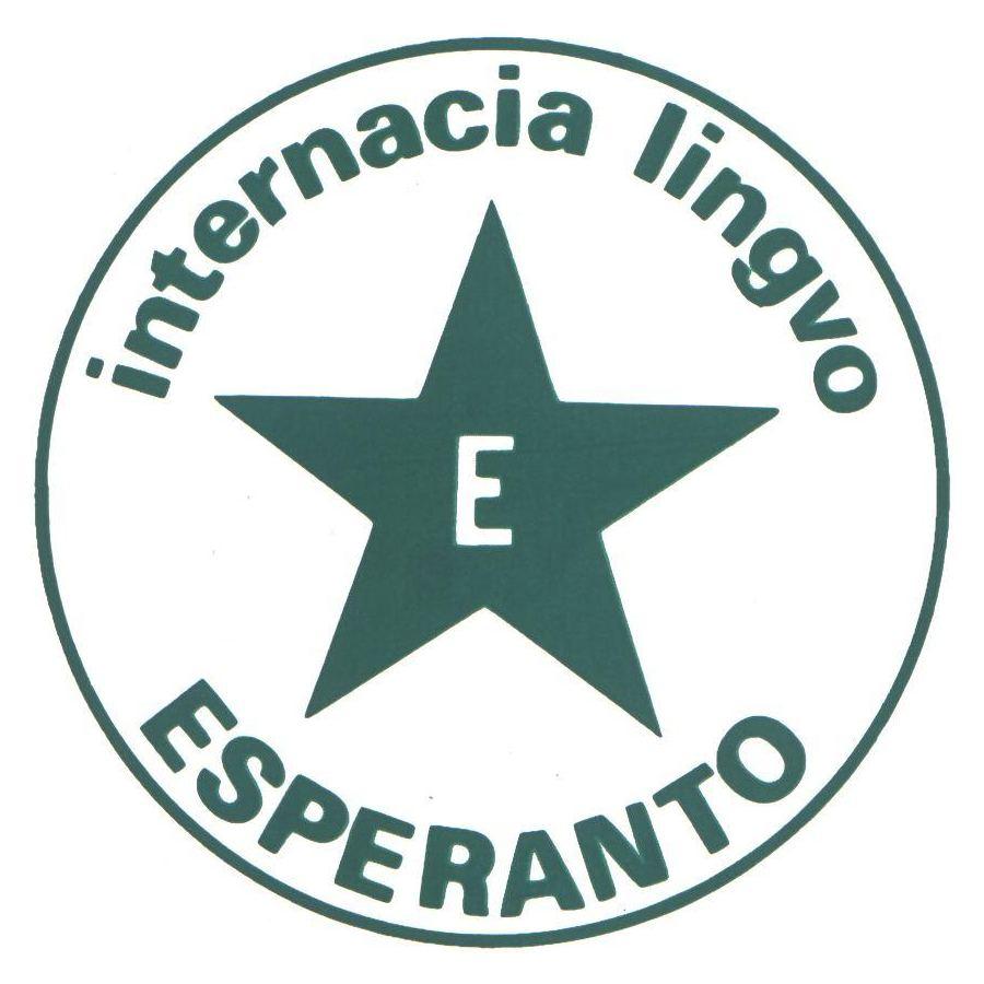 Seal with theme the “international language Esperanto”.